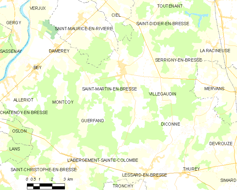 Map of French municipality